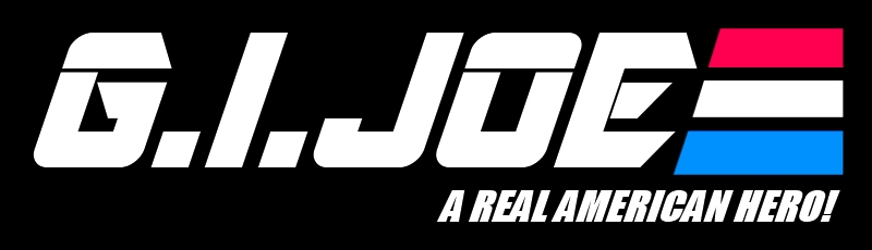 Recreation of the G.I. Joe comic book banner logo.